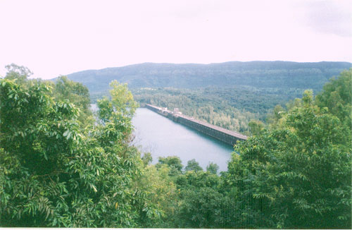 The Koyna Dam in Maharashtra, India Picture taken by be, Nichalp in Sep 2003